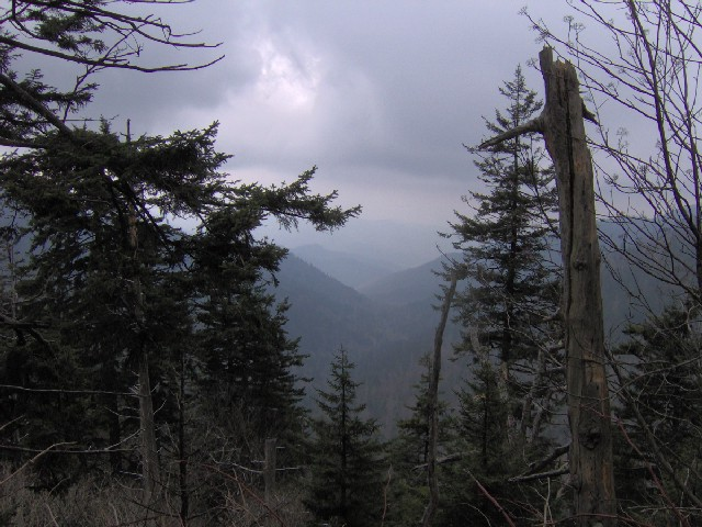 The remote Buck Fork Valley in the Great Smoky Mountains, looking west from Tricorner Knob (appx. 100 feet below the summit). Buck Fork, which is part of the Little Pigeon River watershed, slices between two massive ridges— Guyot Spur to the north (right in the photo) and Chapman Lead to the south (left in the photo). The appx. elevation of the overlook along the Appalachian Trail is 6,000 feet/1,829 meters.